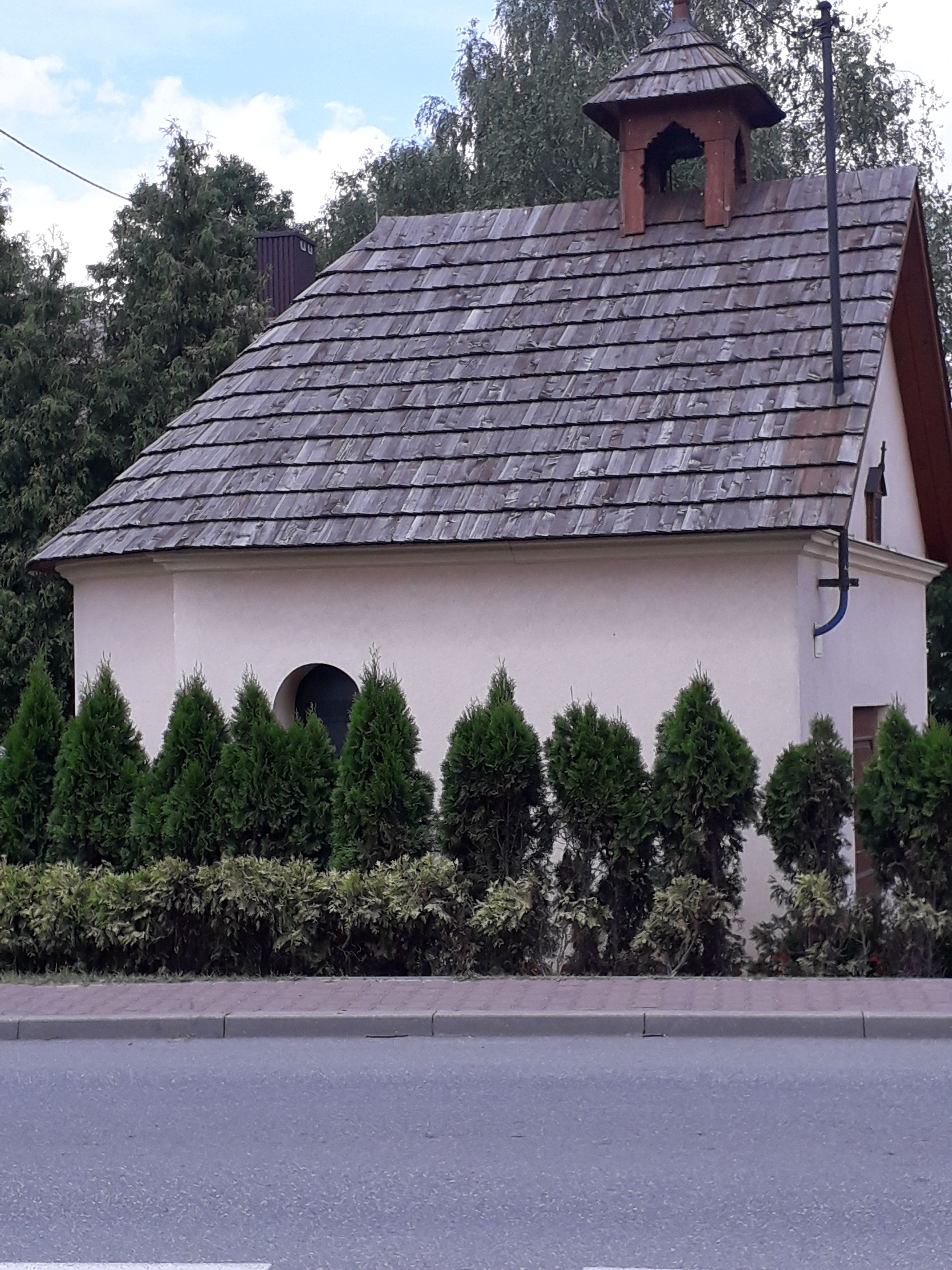 A small chapel in Dąbrowa Górnicza built in the mid-nineteenth century